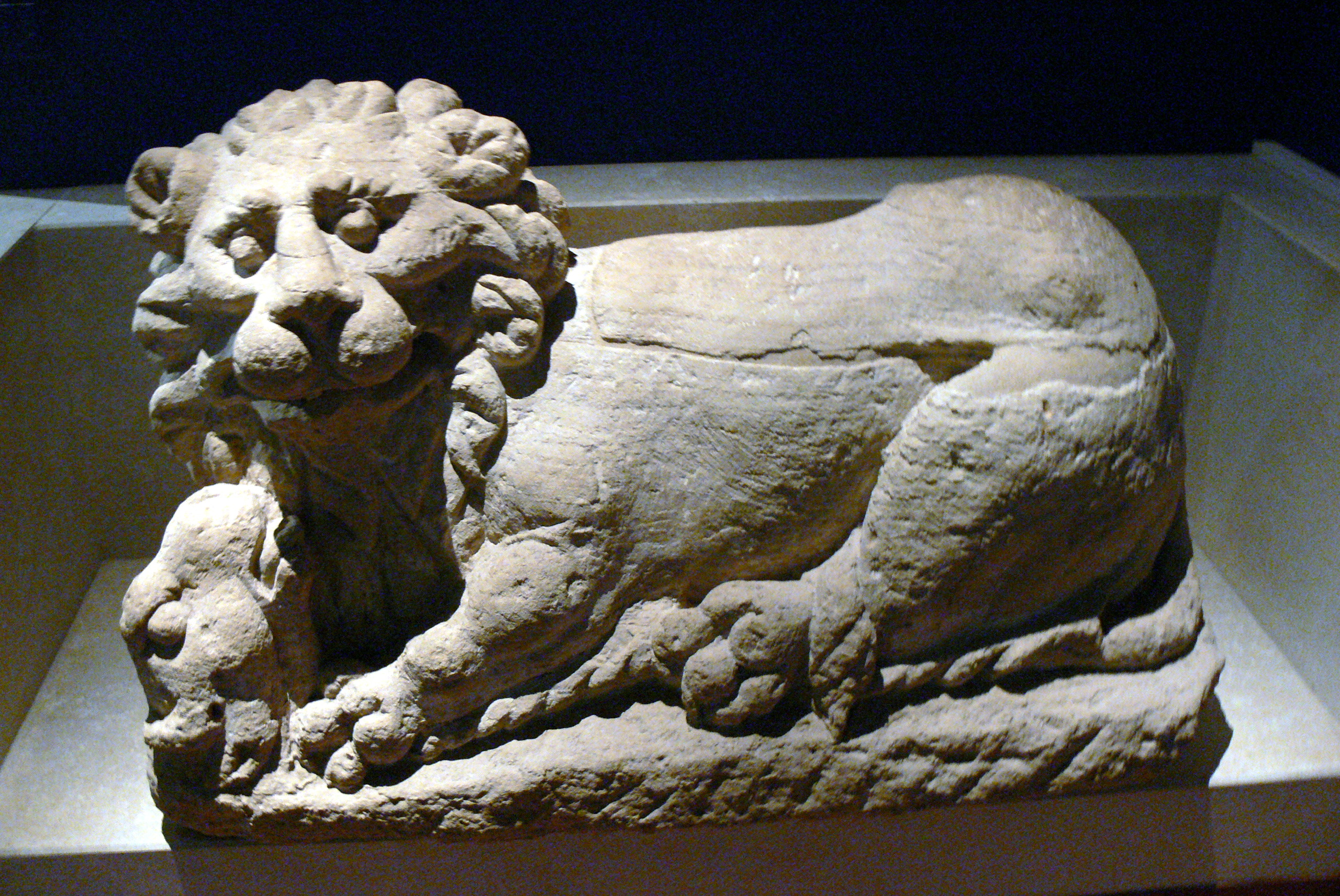 Museum Carnuntinum ( Lower Austria ). Statue ( 3rd century ) of lion grasping a bull´s head, originally situated at the entrance of a mithraeum.